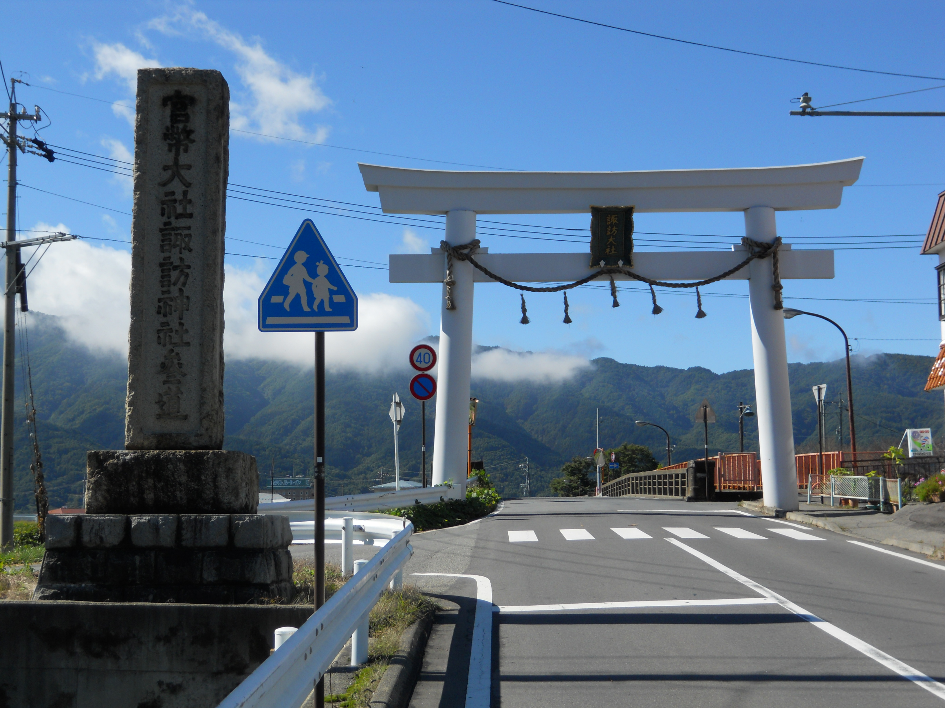 Torii of Suwa Shrine on the Nagano Prefectural Road Route 183